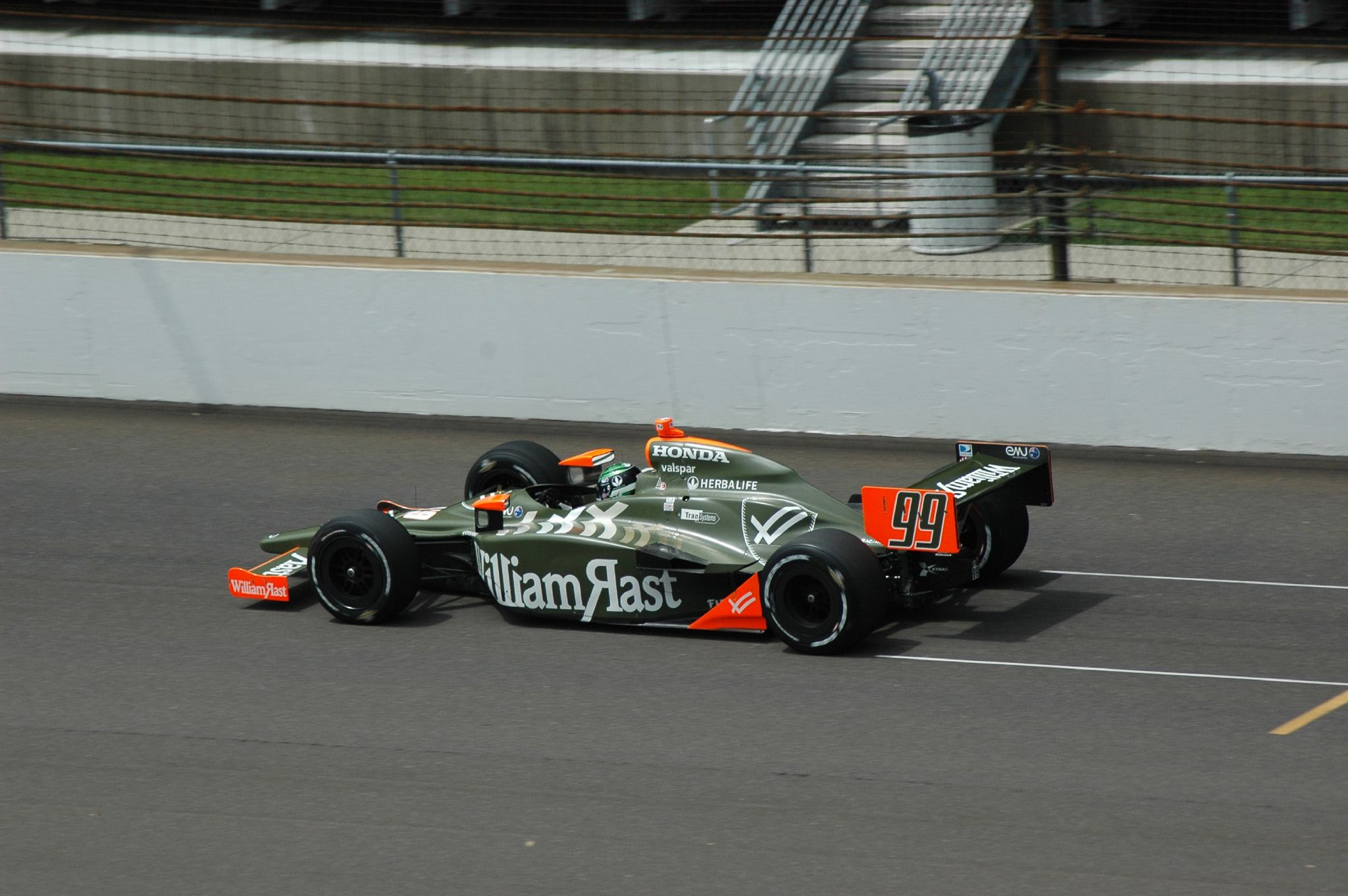 Townsend Bell at Indianapolis 500 practice.